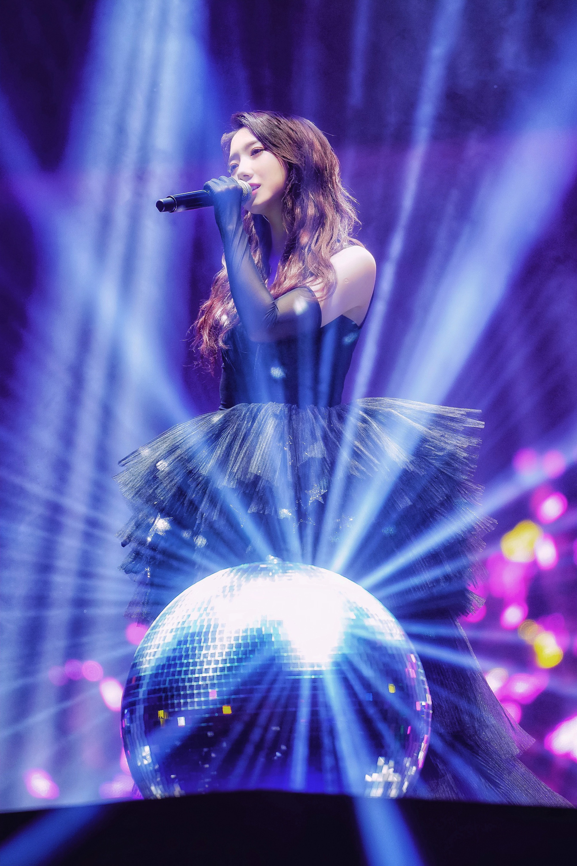 Meng Meiqi at the "2019 Rocket Girls 101 Flight Concert LIGHT · Beijing", Beijing Cadillac Arena, February 23, 2019